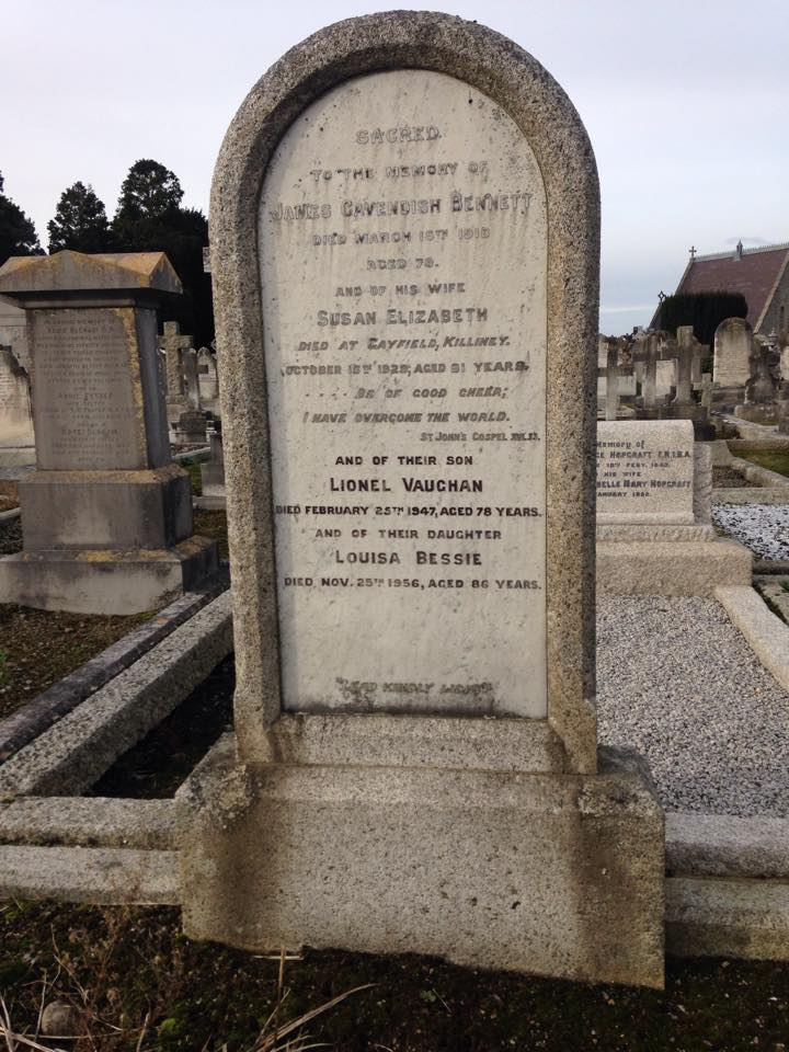 Louie Bennett's headstone at Deansgrange Cemetery.